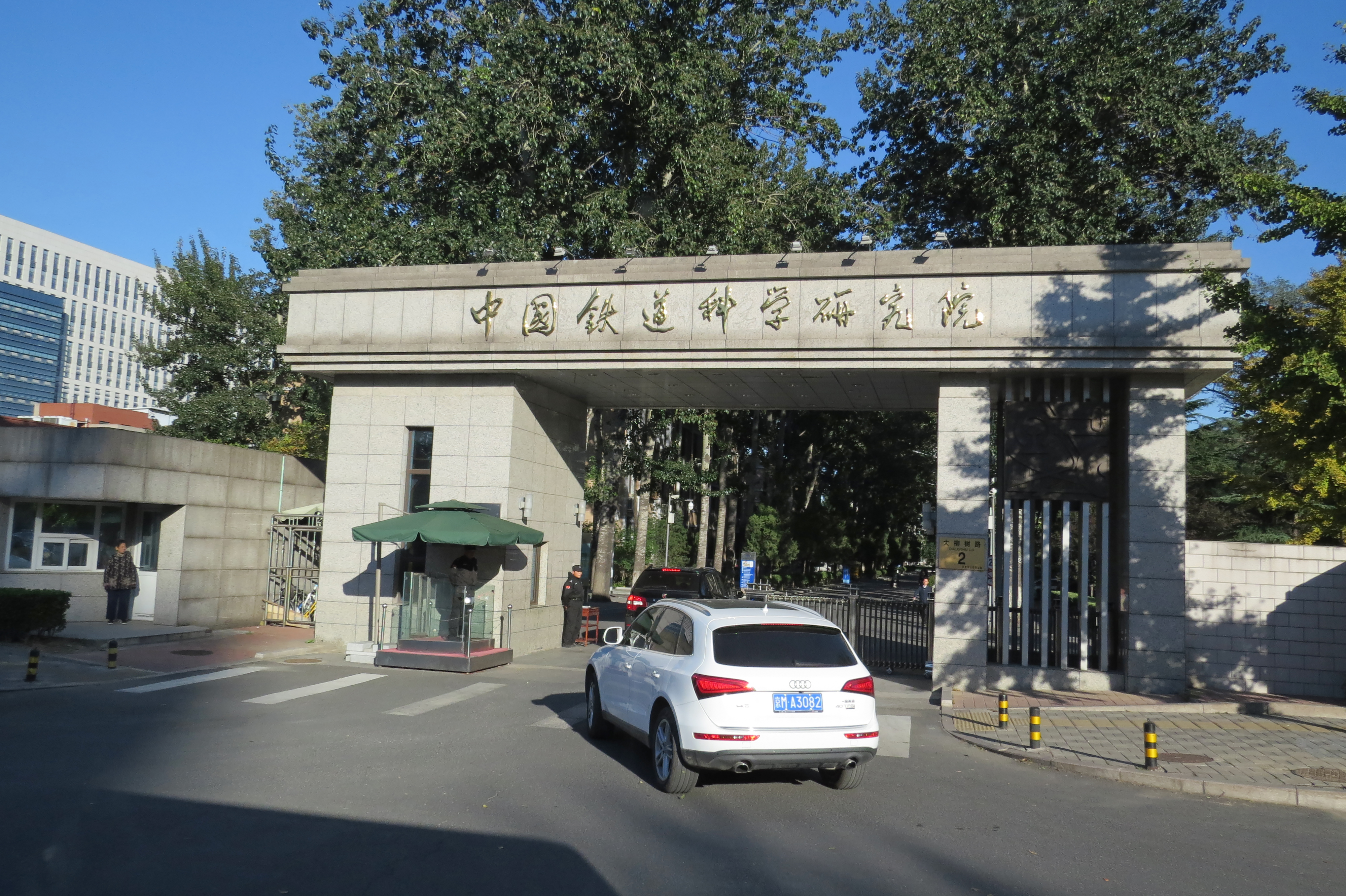 Taken from Route 86. Headquarters in Beixiaguan and the test field in Jiangtai.